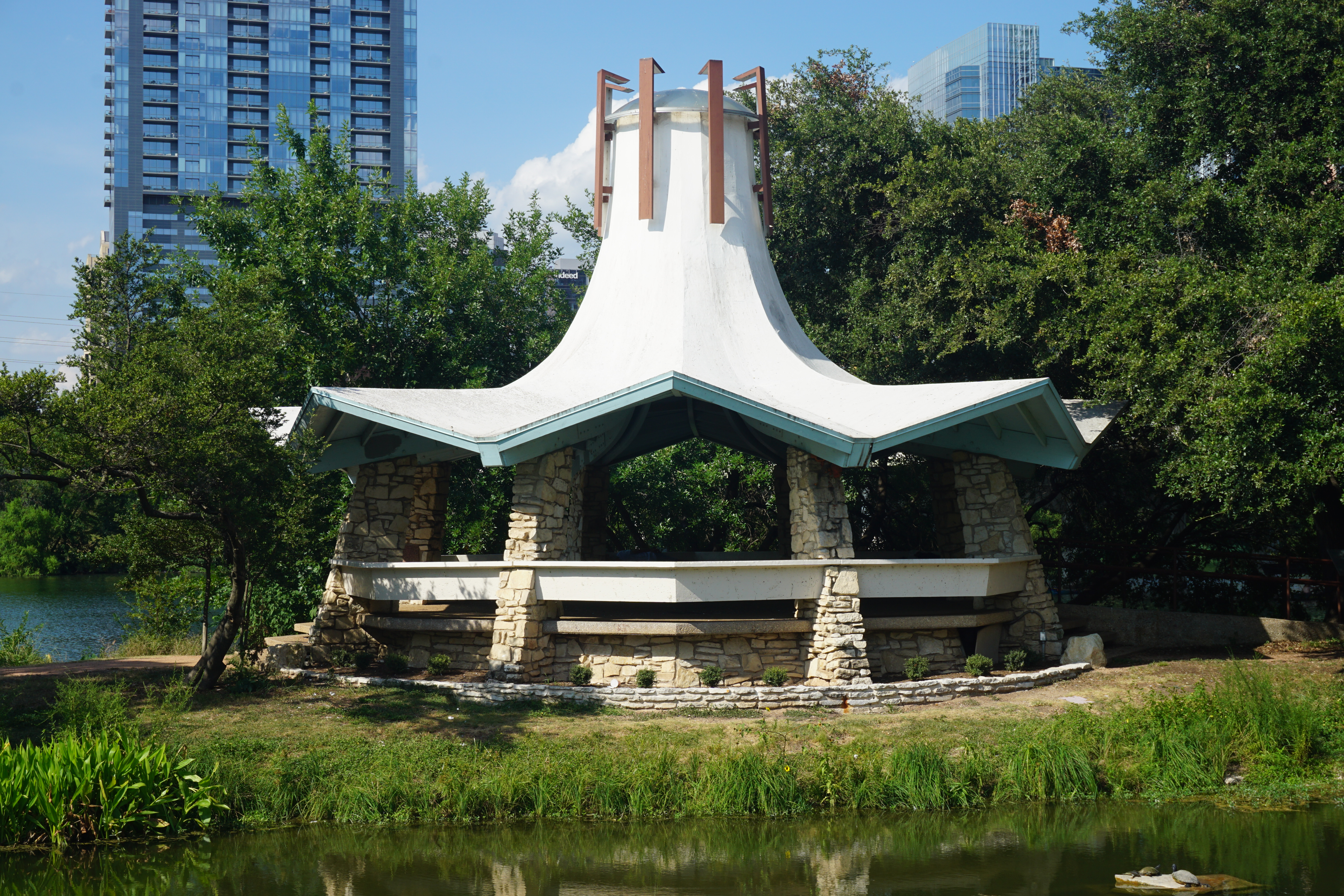 Fannie Davis Town Lake Gazebo in Austin, Texas (United States).